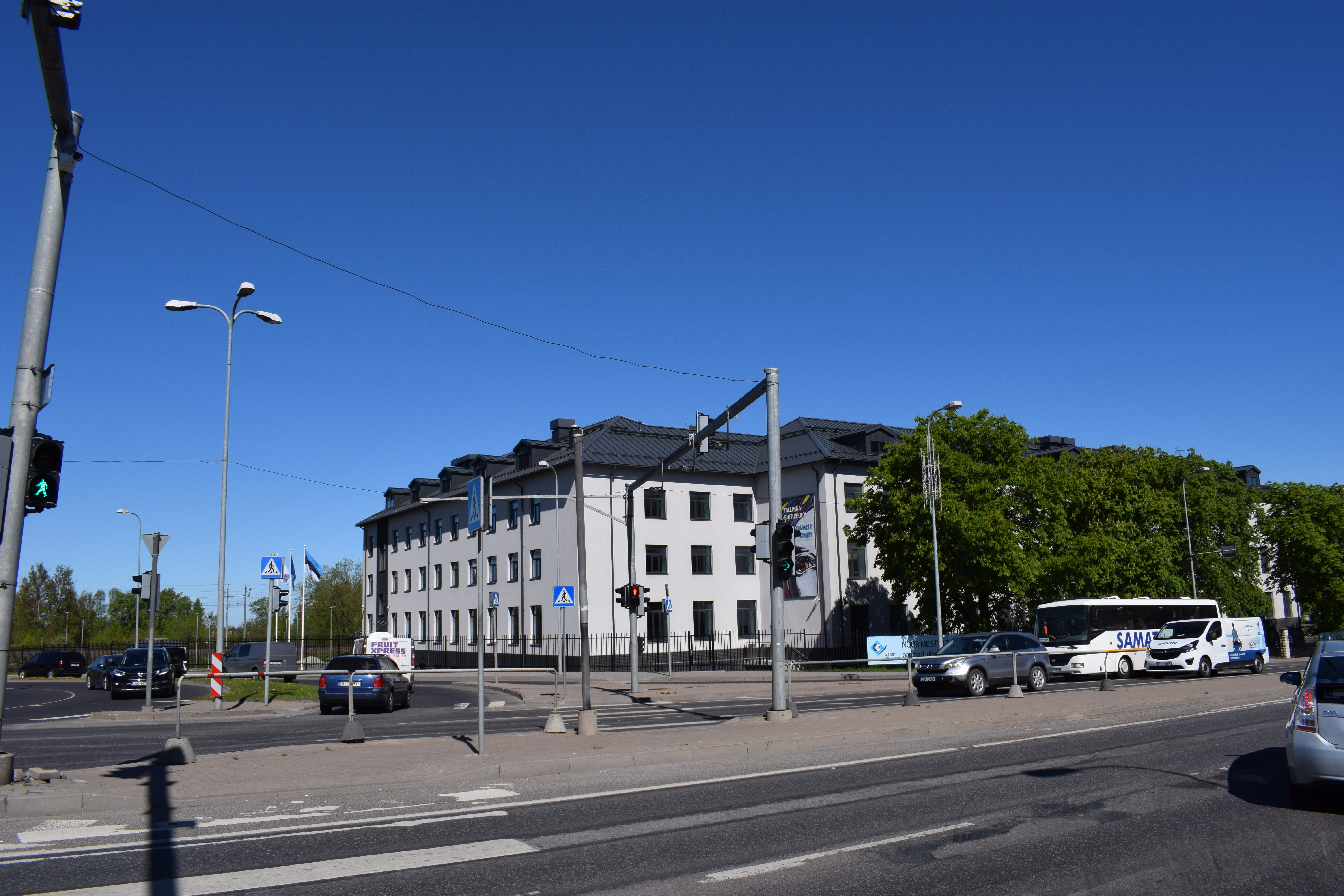 Tallinna Ehituskool